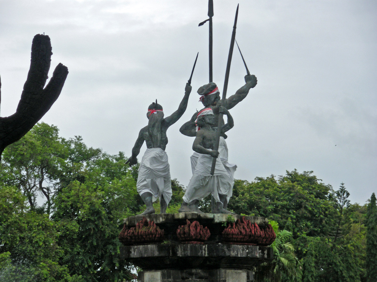 Monument commemorating the puputan 1906, in Denpasar (suicide of hundreds of inhabitants of the Kingdom of Badung refusing to submit to the colonial government established by the Dutch).